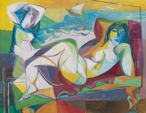 Painting by Georg Königstein